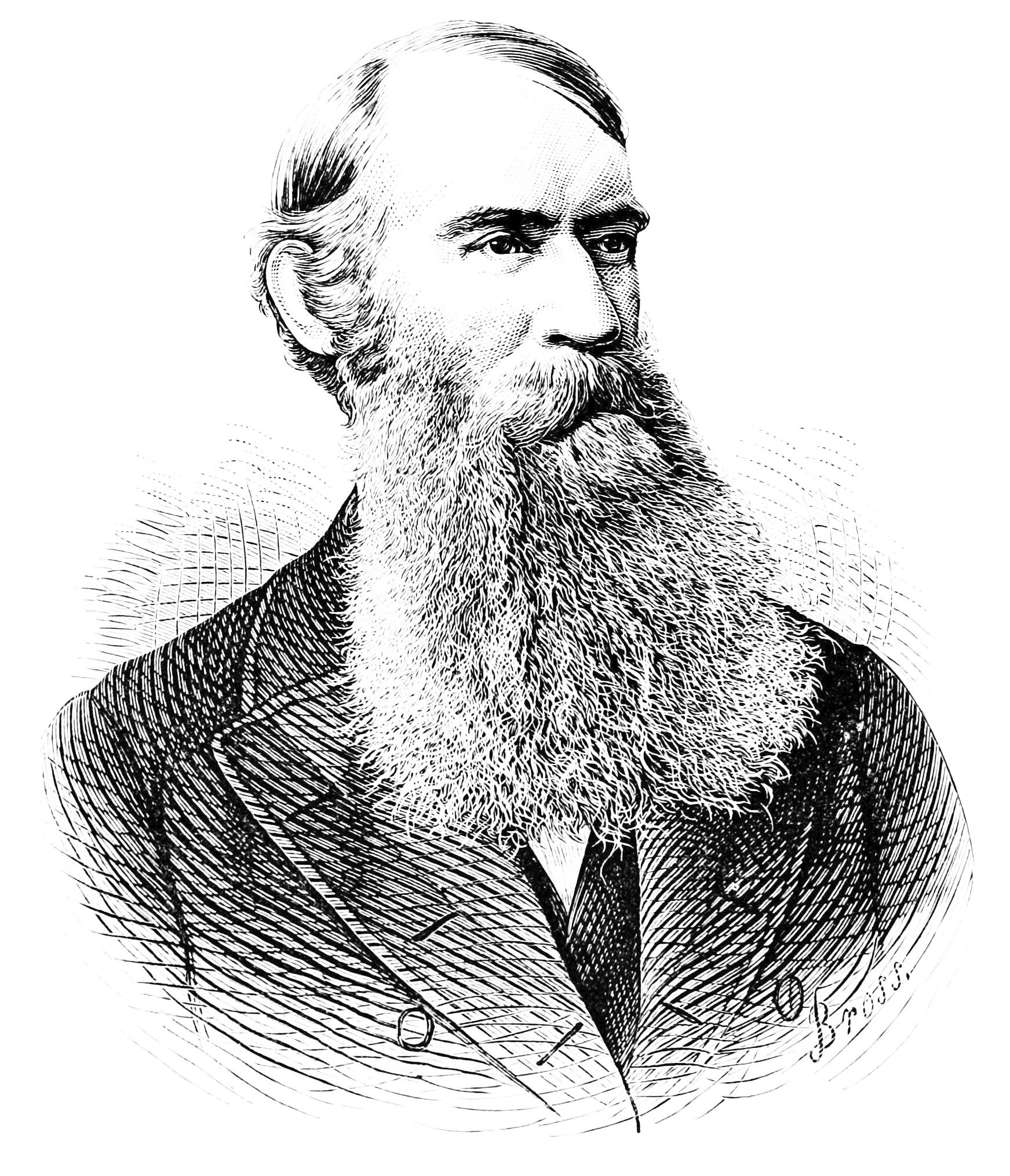 John Strong Newberry